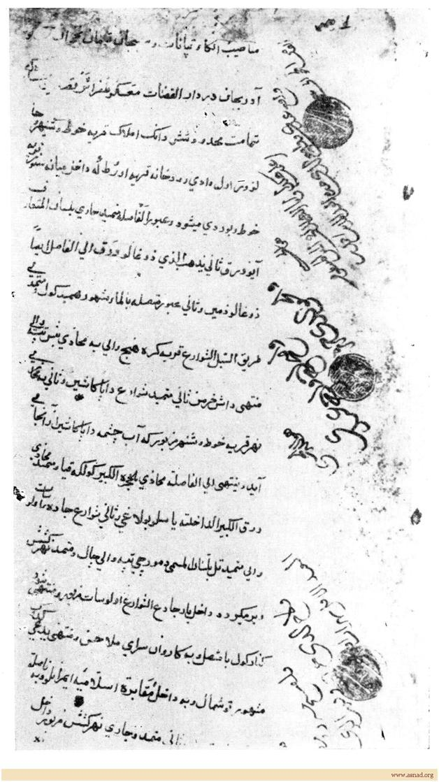 A document on Azerbaijan. Timurid period